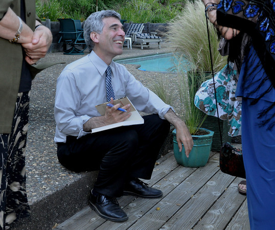 Copyright released by permission of photographer Leon Kunstenaar.